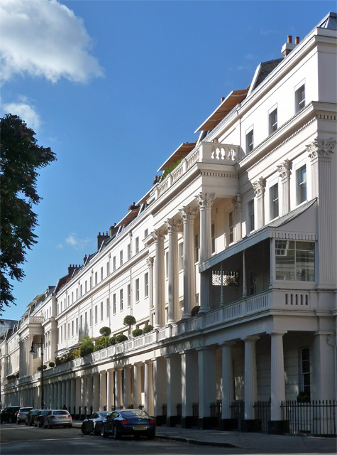 83-102 Eaton Square